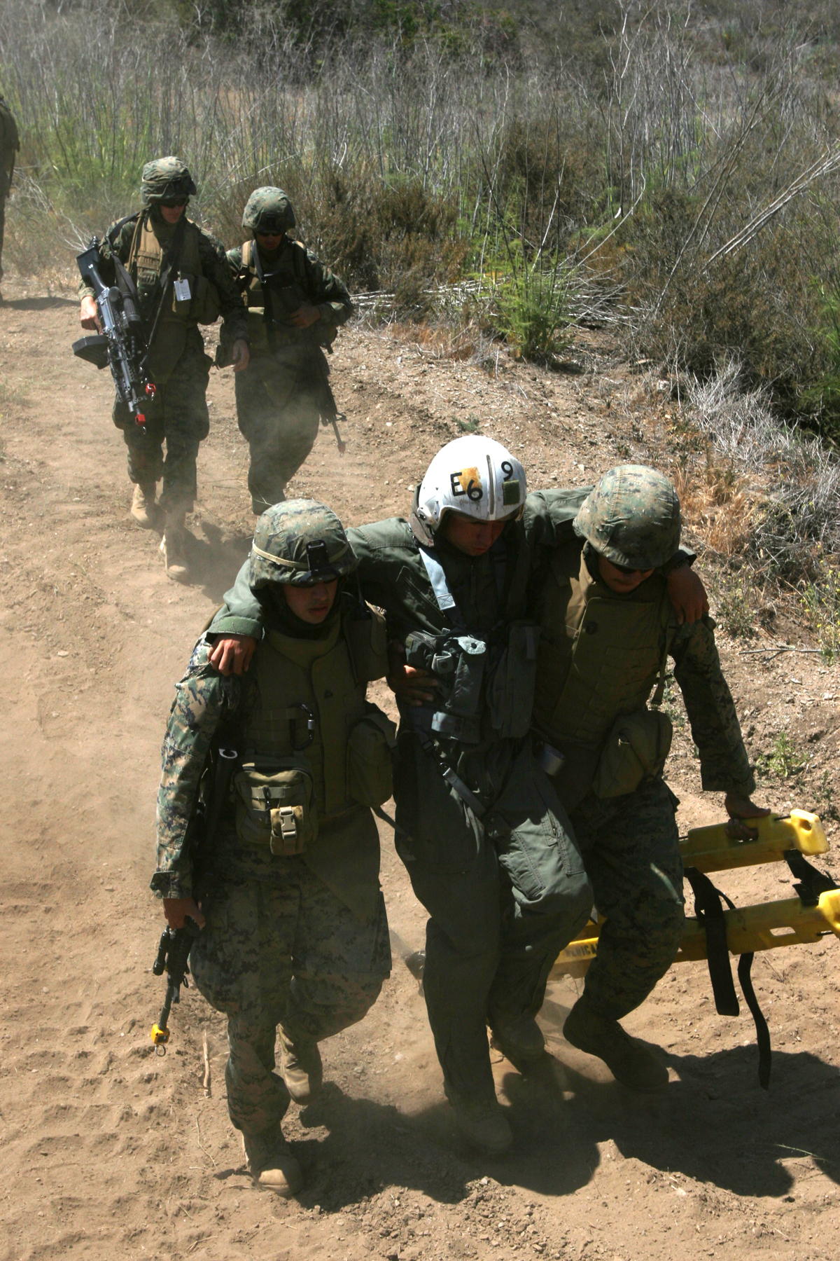 FIRE BASE GLORIA, MARINE CORPS BASE CAMP PENDLETON, Calif. � Marines with Weapons Company, Battalion Landing Team 1st Battalion, 5th Marine Regiment, 11th Marine Expeditionary Unit, from here, evacuate a wounded pilot during in a Tactical Recovery of Aircraft and Personnel (TRAP) exercise June 14, here. The Marines with the BLT were engaged with a mock AV-8B Harrier II accident and the recovery and evacuation of the pilot. The training was provided by Special Operations Training Group, I Marine Expeditionary Force, from here.